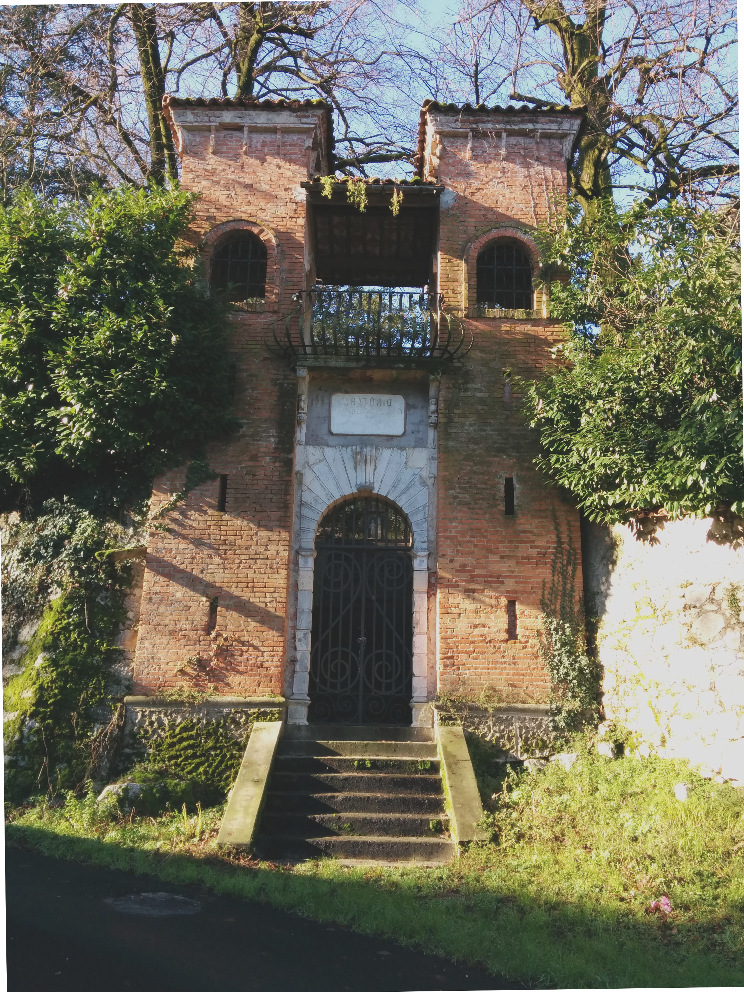 Oratorio di Sant'Antonio's gates, Costabissara